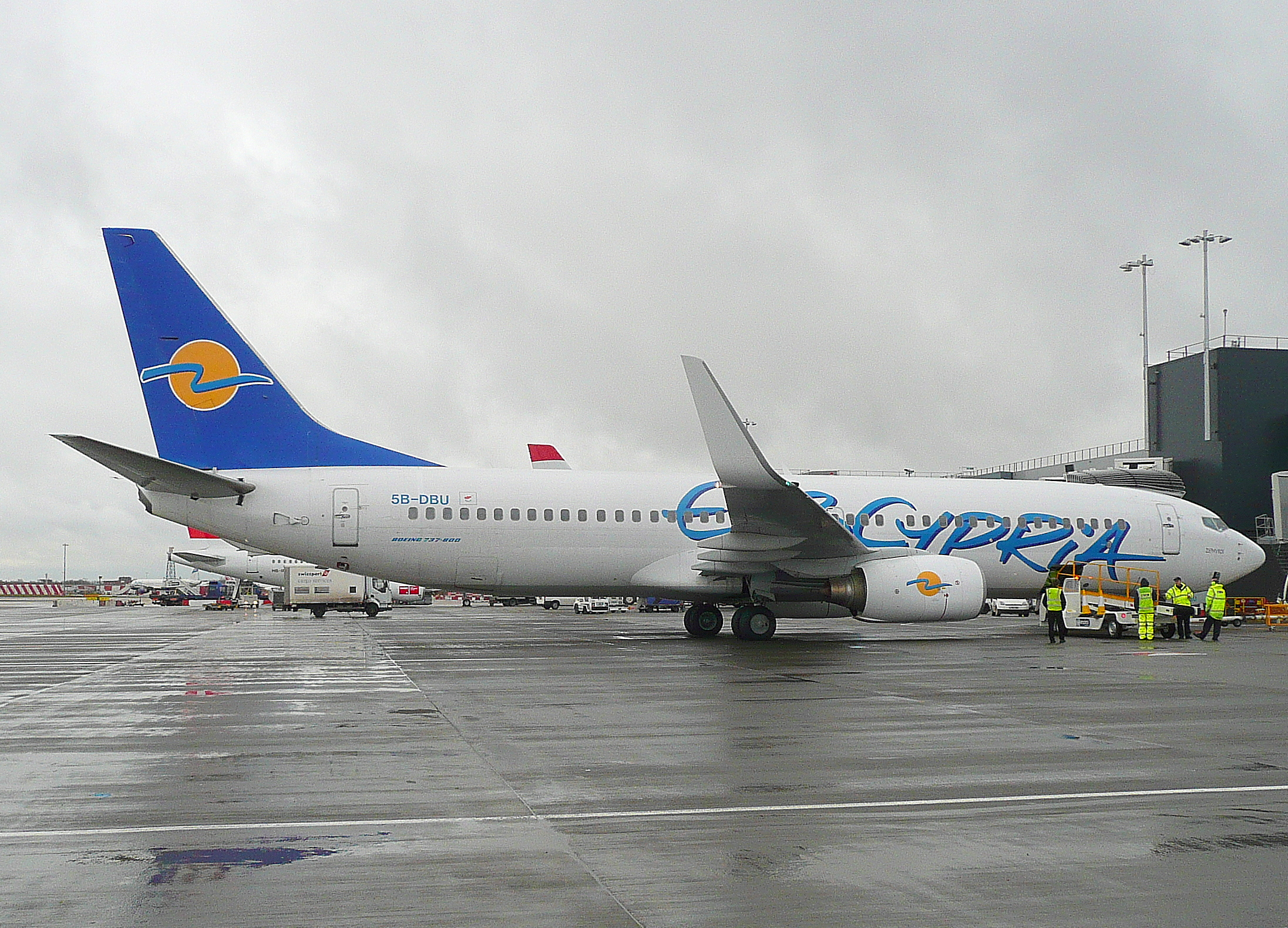 5B-DBU B737W Eurocypria parked on the lima stands.